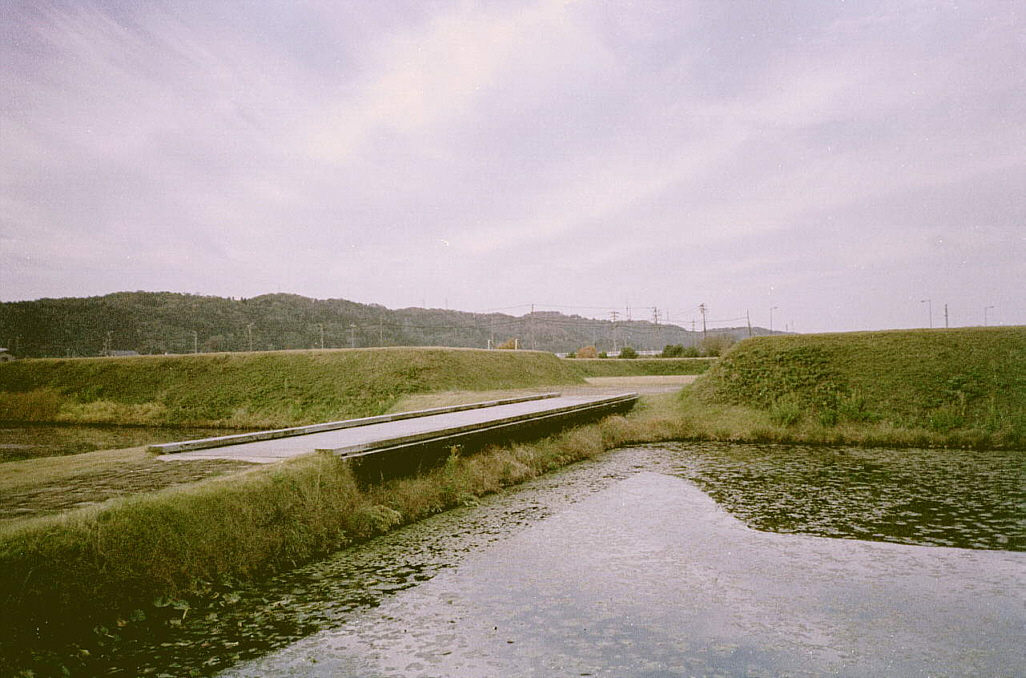 View of the remains of an old castle Yasuda-jō, built in 16th century. Toyama city, Japan.